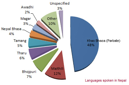 Different language spoken being spoken in Nepal